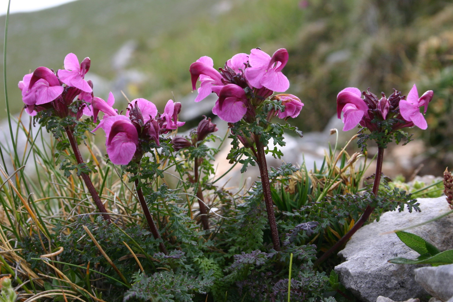 Pedicularis rostratocapitata